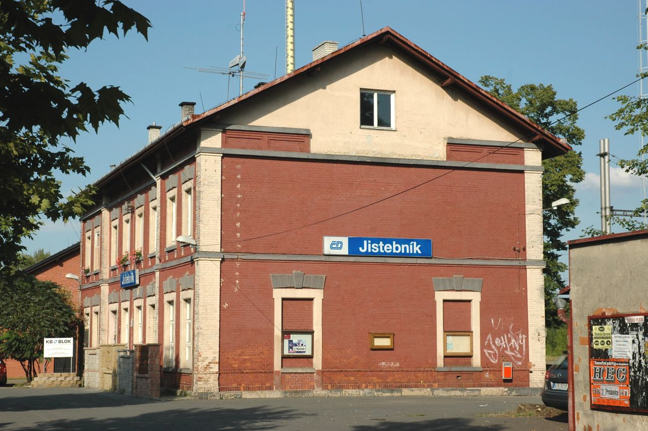 Jistebník railway station, Czech Republic